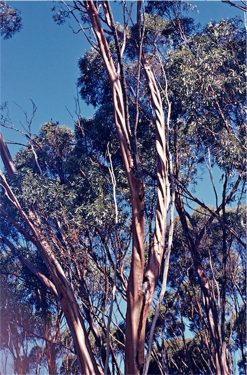 Trunk of the gimlet, Eucalyptus salubris, planted at Roseworthy, South Australia